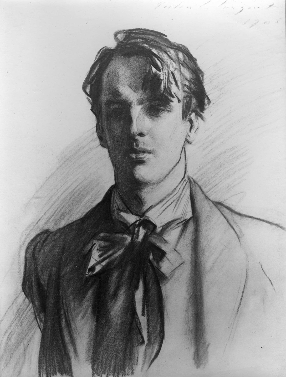 William Butler Yeats (1865–1939), poet. Charcoal drawing by John Singer Sargent, 14/1/2 x 18 1/2 (62.2 x 47 cm)